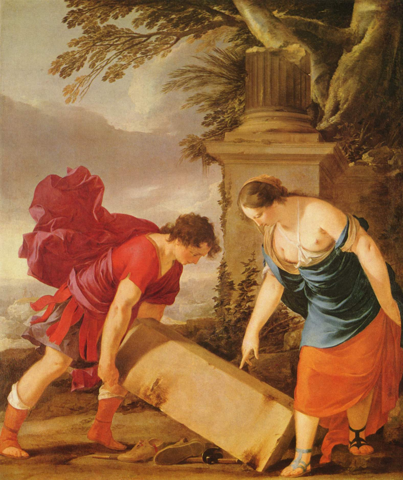 Theseus Finding the Sword and the Shoes of his Father